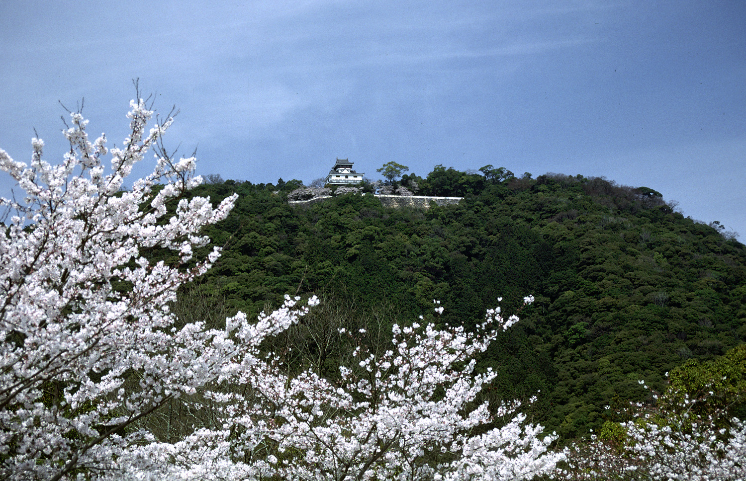 This photograph shows Iwakuni Castle in the city of Iwakuni, Yamaguchi Prefecture, Japan. I took the photo and contribute my rights in the file to the public domain.